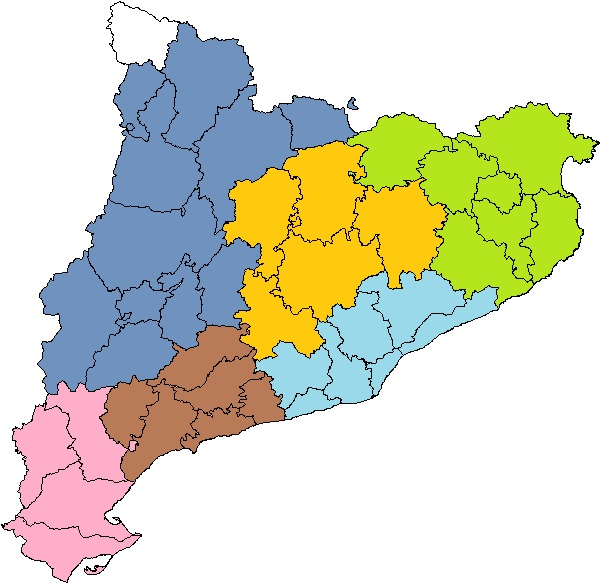 Regions for each region of operation Corps rangers